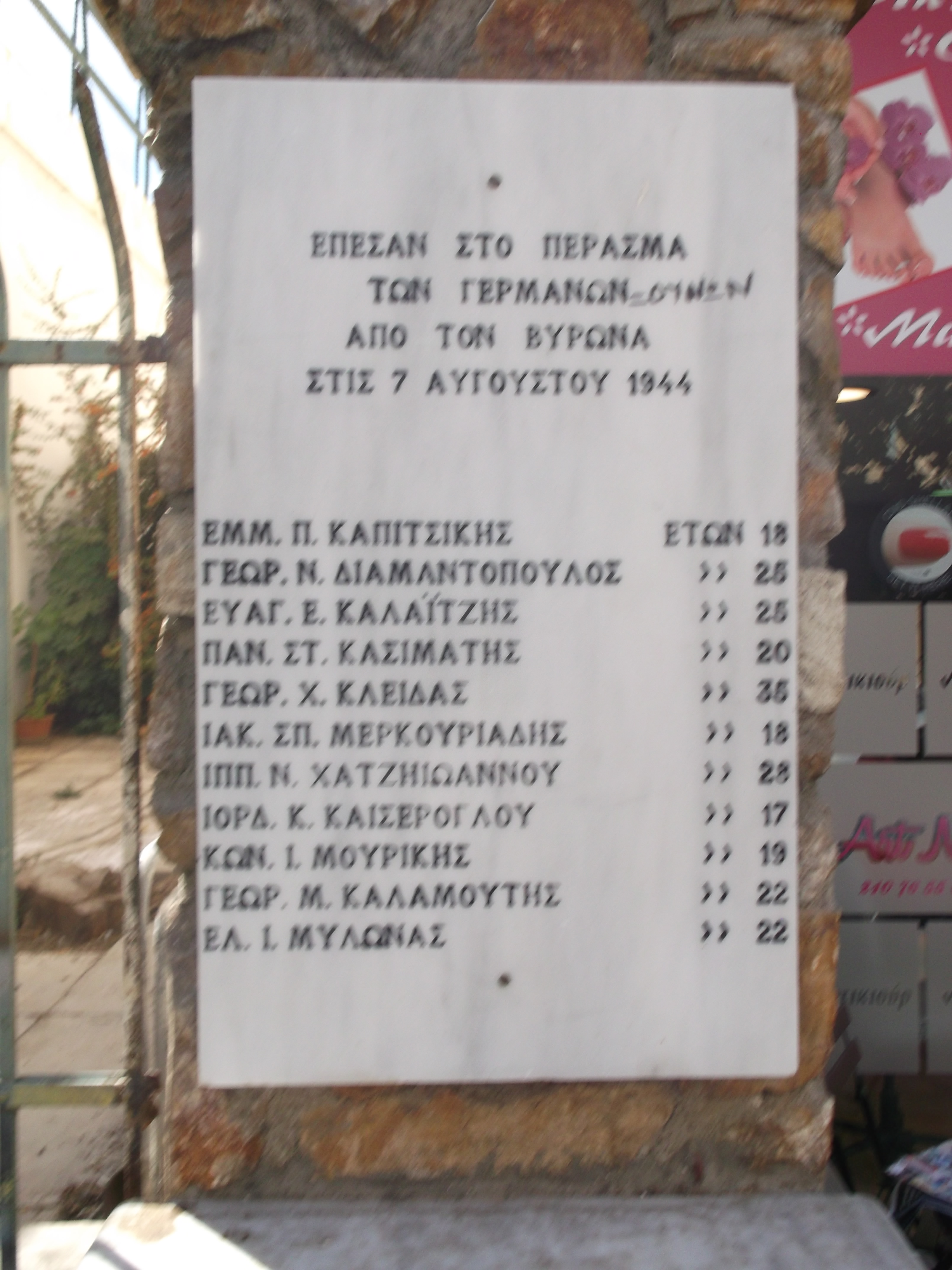 Names of 11 members of Greek Resistance, killed b Germans in Vironas, Athens August 1944